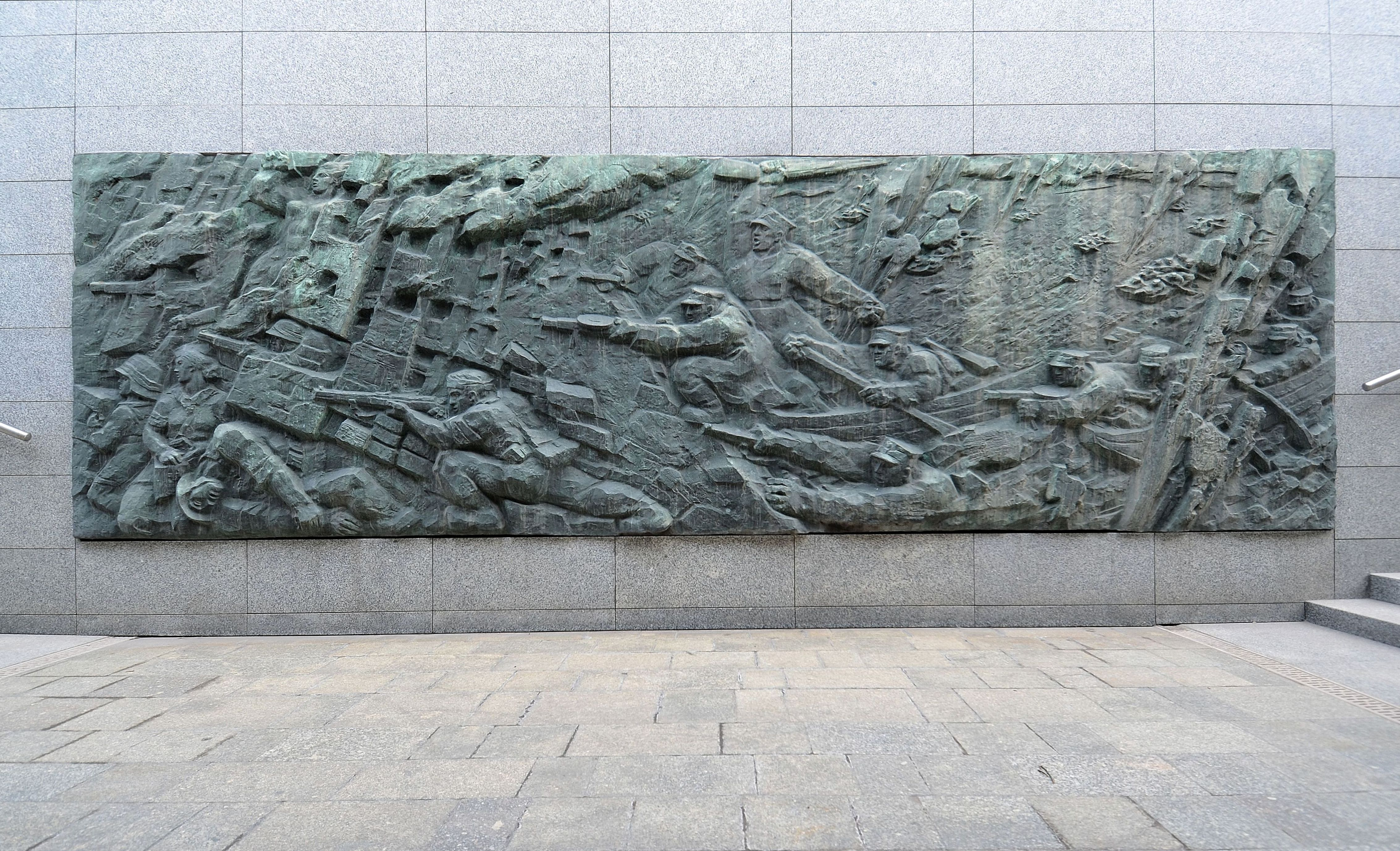 Chwała Saperom Monument in Warsaw